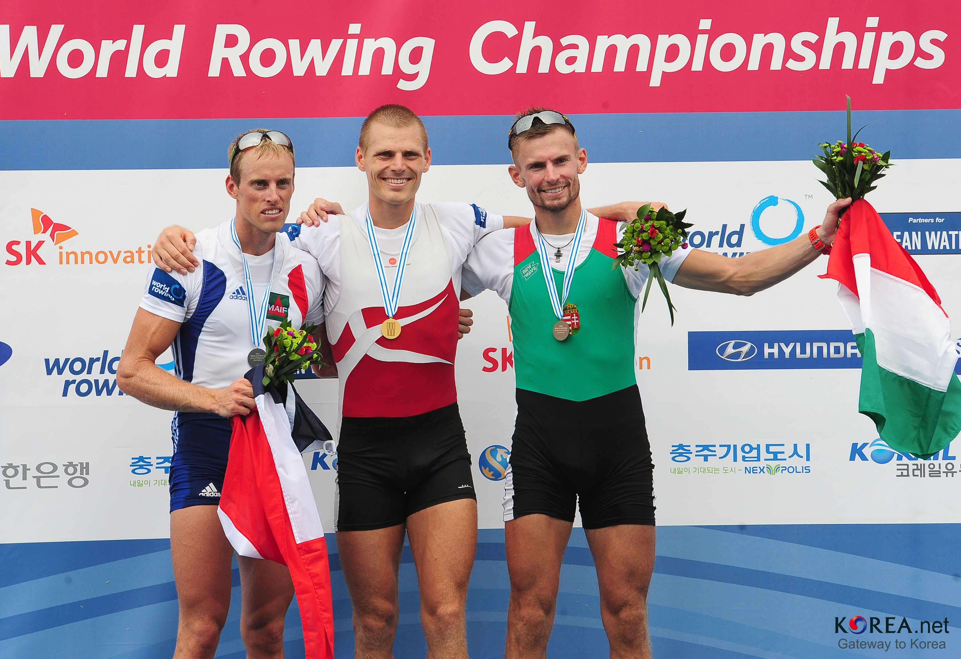 2013 Chungju World Rowing Championships. From left to right: Jérémie Azou, Henrik Stephansen and Péter Galambos